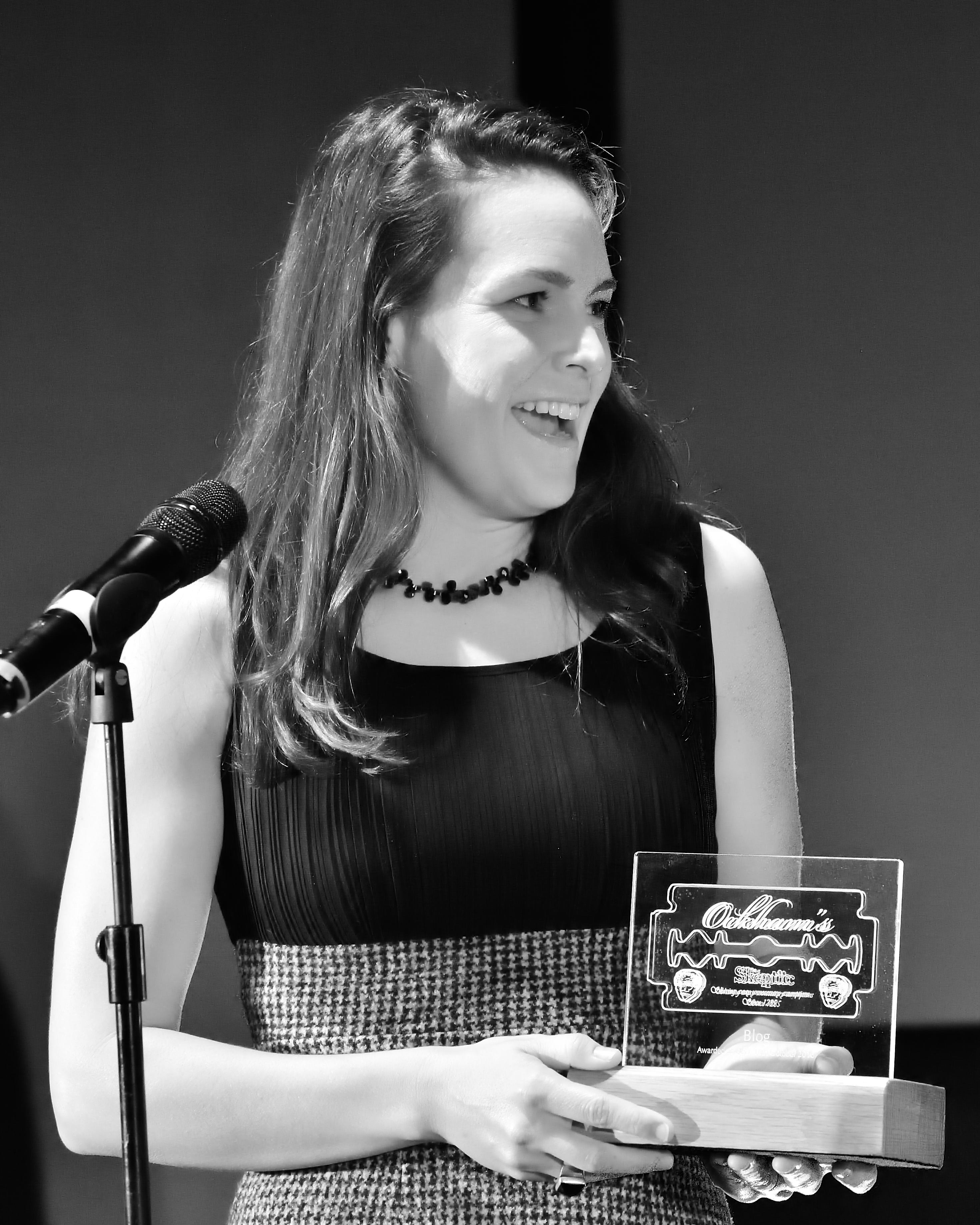 Britt Marie Hermes at QED 2016, receiving Best Blog Ockham award